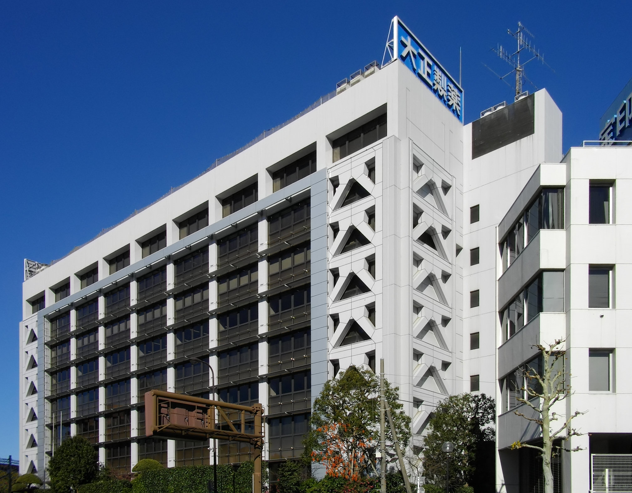 Taisho Pharmaceutical Co. Head Office